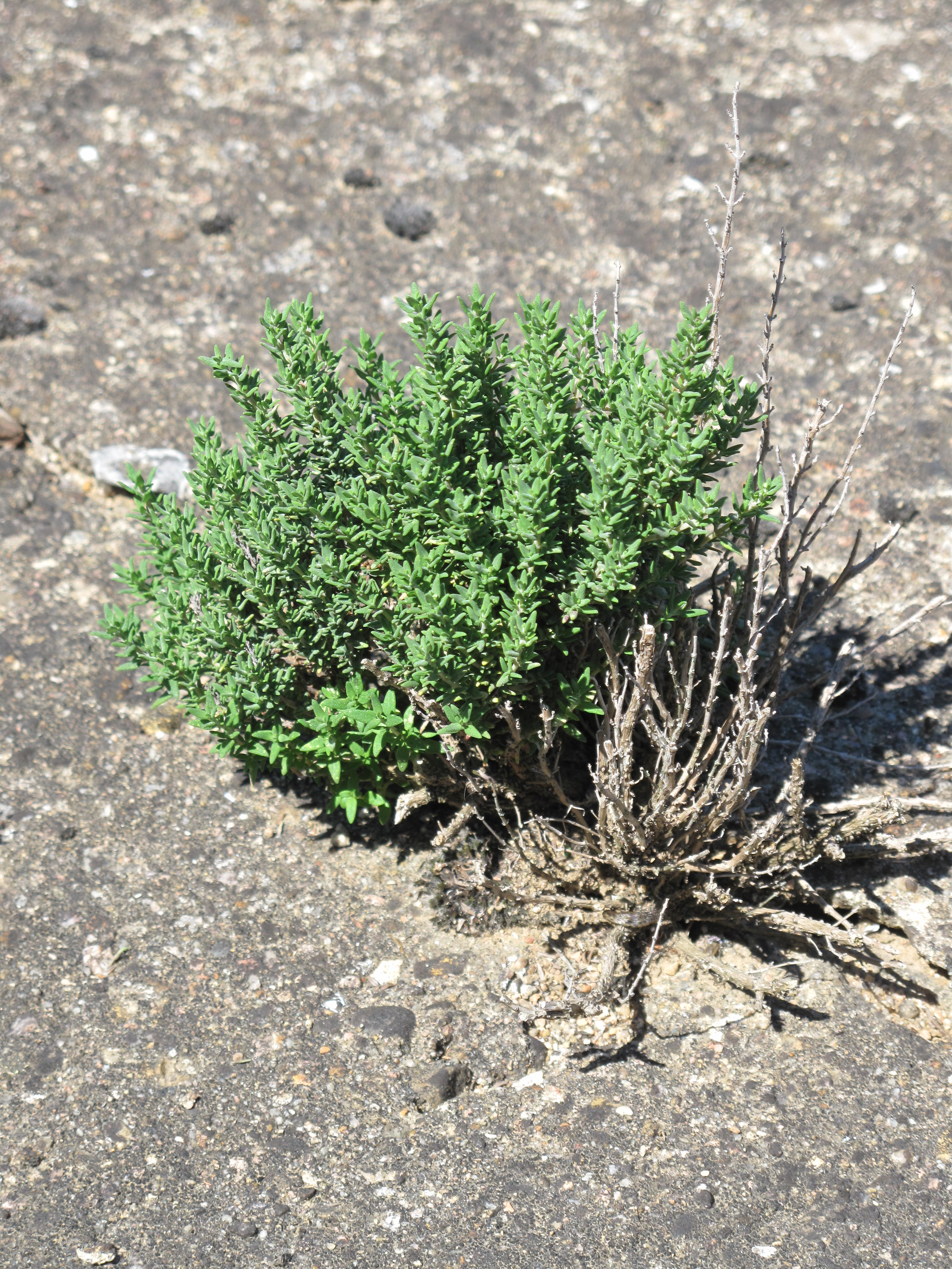 Spontaneous growth of plants of thymus in a garden in Burgundy. Clayous soil.